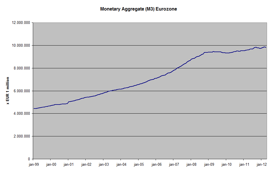 Monetary Aggregate (M3) of the Eurozone. Source: website ECB, search query BSI.M.U2.N.V.M30.X.1.U2.2300.Z01.E.